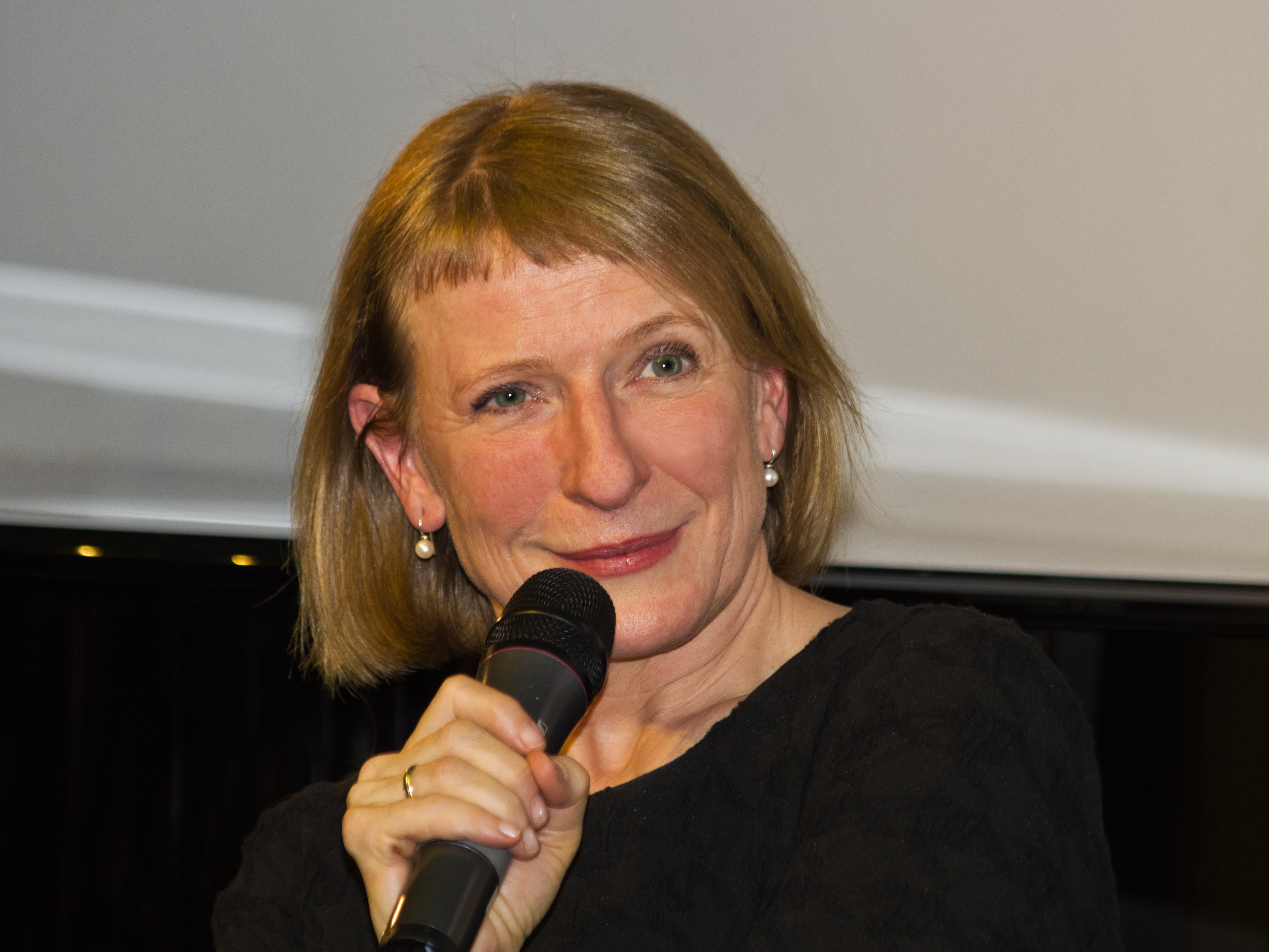 Dagmar Manzel is an actress and vocalist from Berlin, Germany.